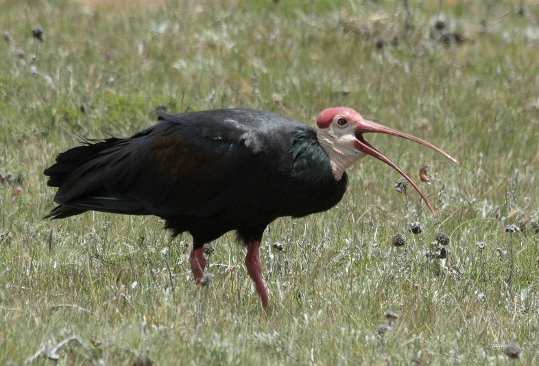 Southern Bald Ibis in Sani Pass, Lesotho.